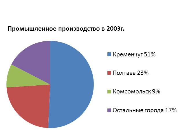 РИСОВАЛ САМ...данные держ ком стат